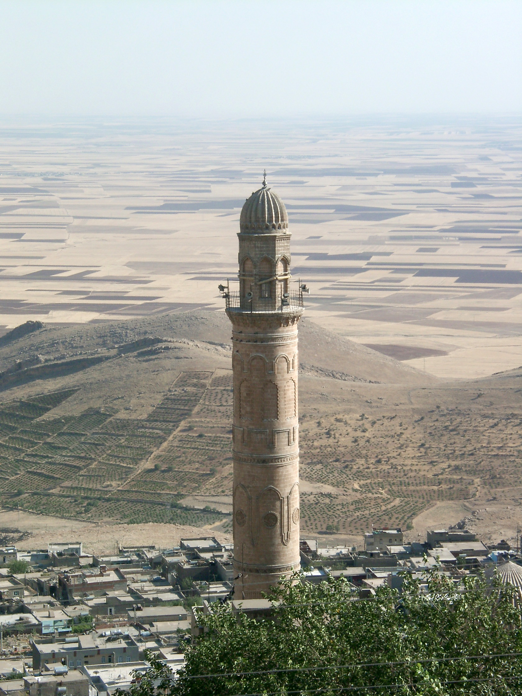 View from Mardin (Turkey) to the Mesopotamian plains with the minaret of the Reyhane Mosque in front.